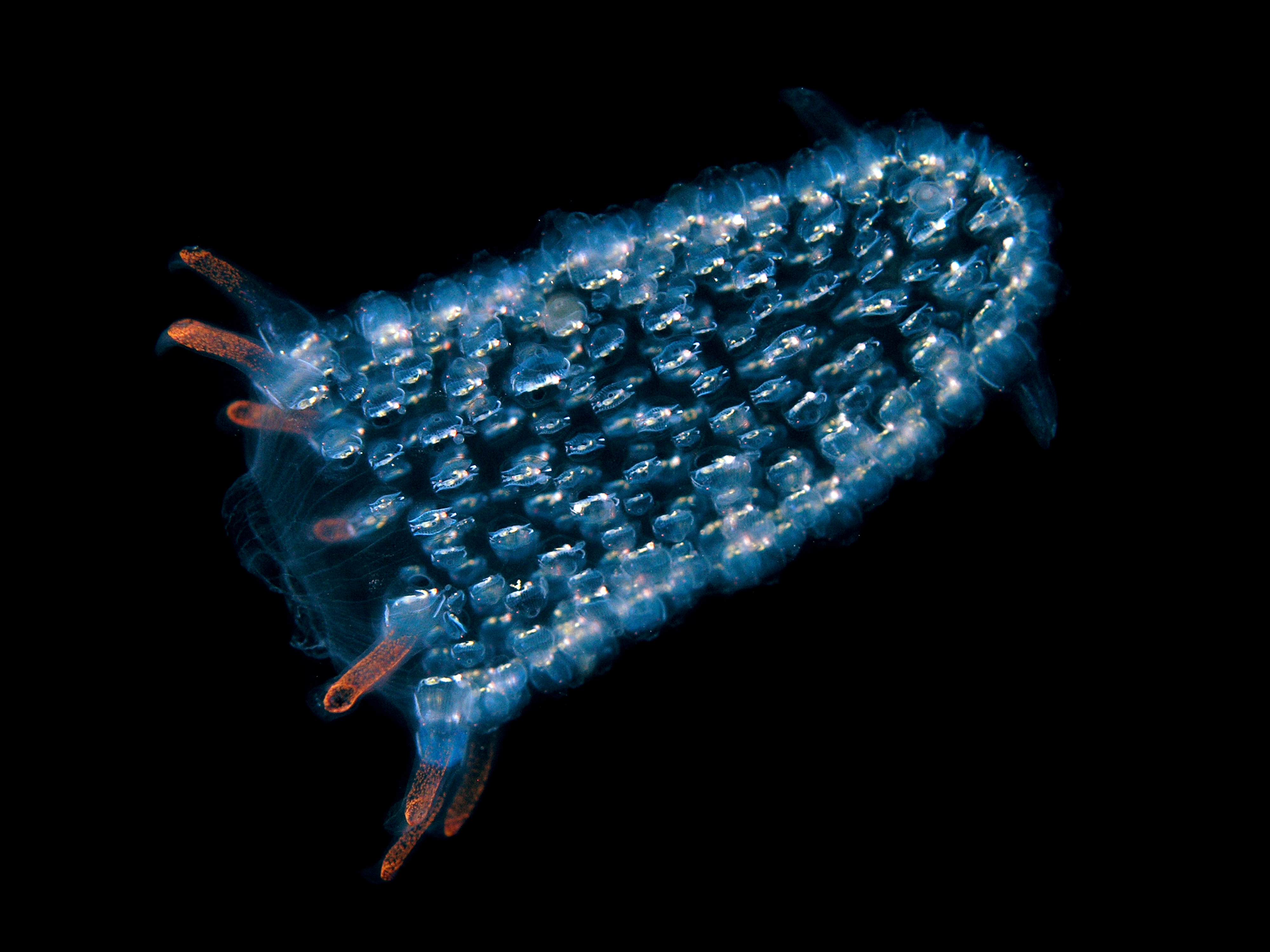 Pyrosome pelagic colonial tunicate or salp encountered off Atauro island, East Timor.